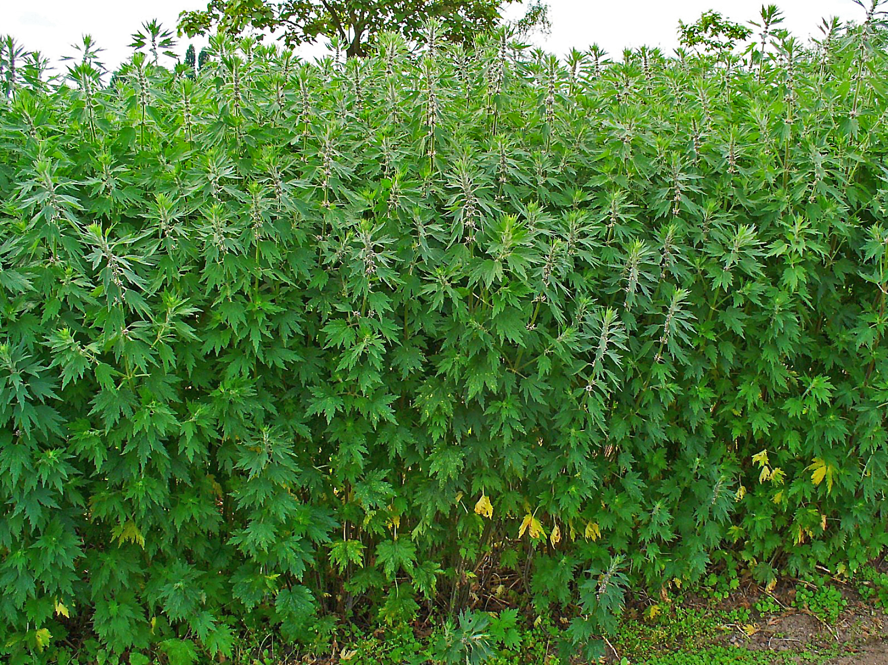 Leonurus cardiaca, Lamiaceae, Motherwort, habitus. The fresh, aerial parts collected at bloom are used in homeopathy as remedy: Leonurus cardiaca (Leon.)